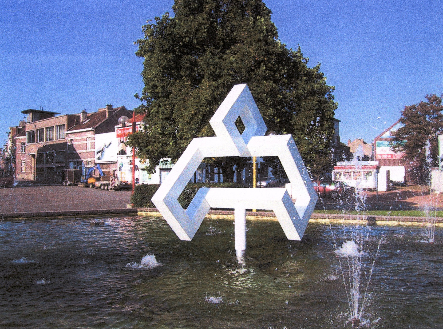 Mark Verstockt, Strombeek